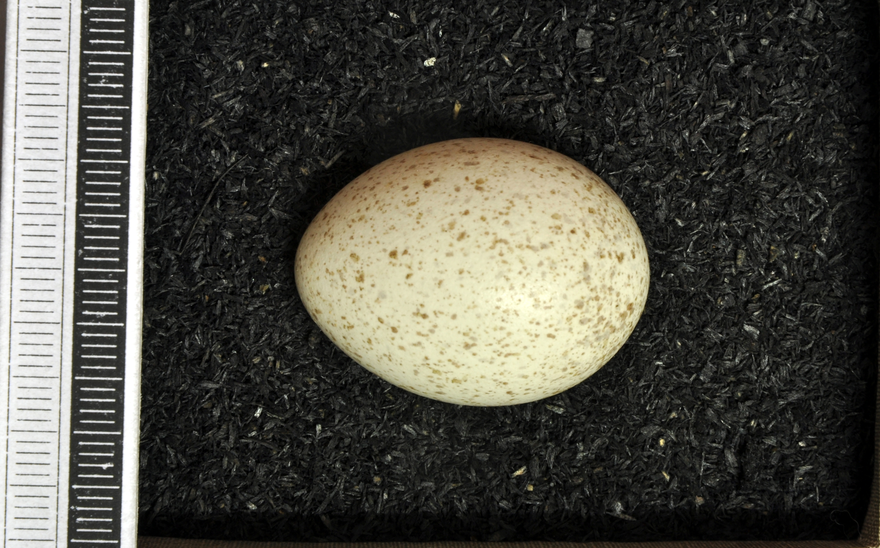 Spotted nutcracker Nucifraga caryocatactes , egg, Coll. Museum Wiesbaden